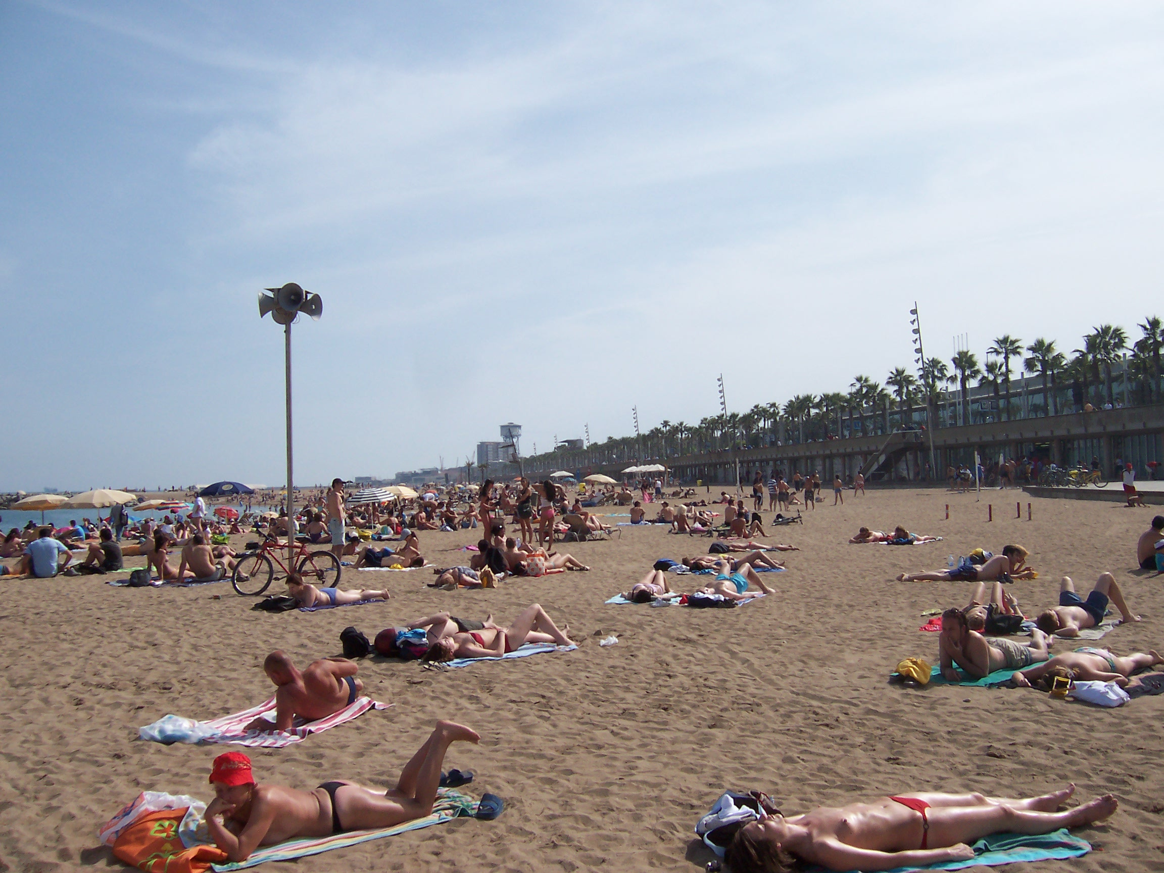 Barceloneta Beach, in Barcelona.